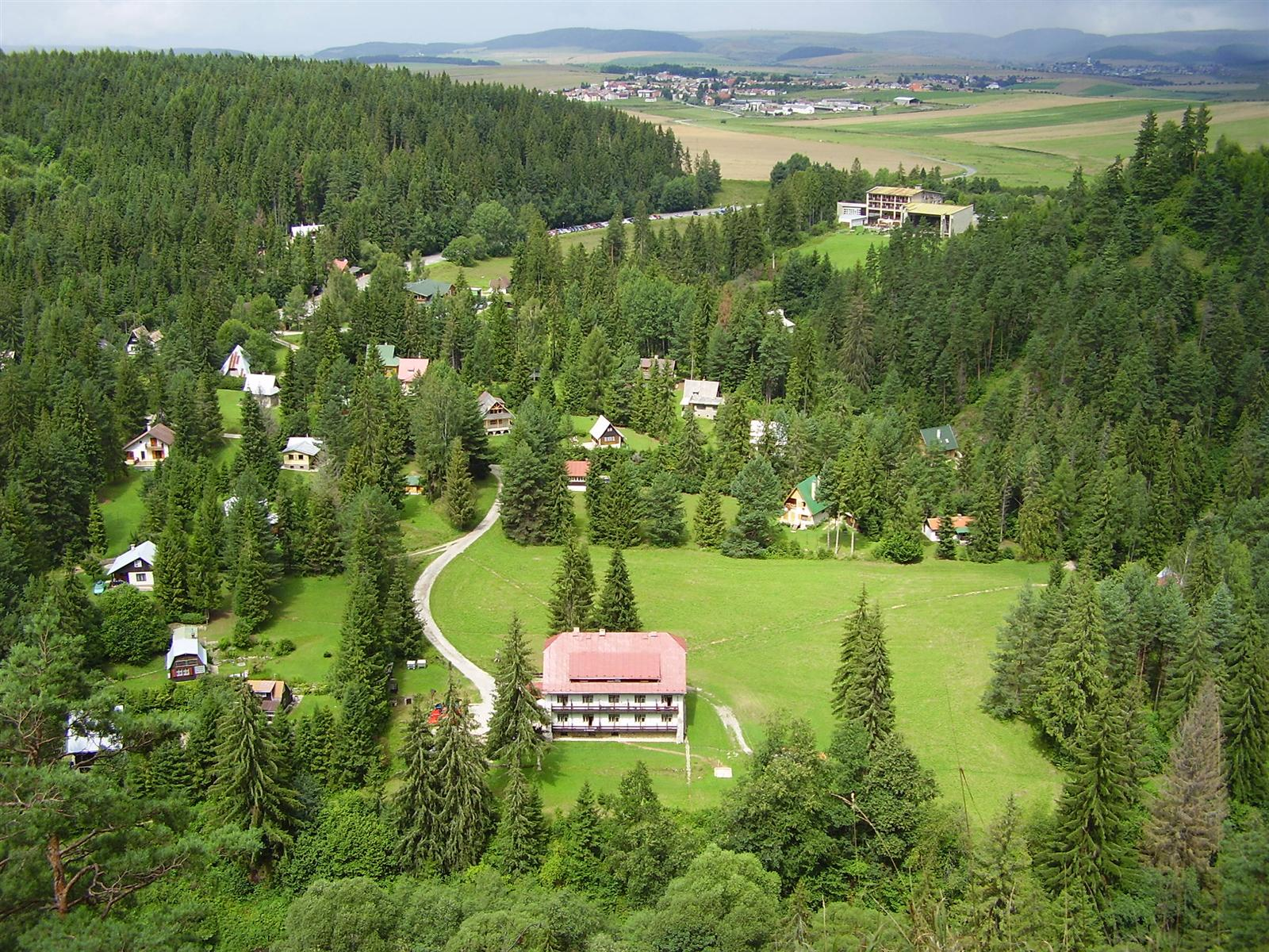 View from Sovia skala at Čingov